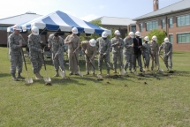 Photo caption from U.S. Army website: Brig. Gen. James H. Schwitters, Fort Jackson commanding general, third from left, and Col. Clarke McGriff, US. Army Chaplain Center and School commandant, second from right, join in the ground-breaking ceremony of the Armed Forces Chaplaincy Center Tuesday. The Air Force and Navy chaplains school are moving to Fort Jackson as part of the Base Realignment and Closure Initiative.